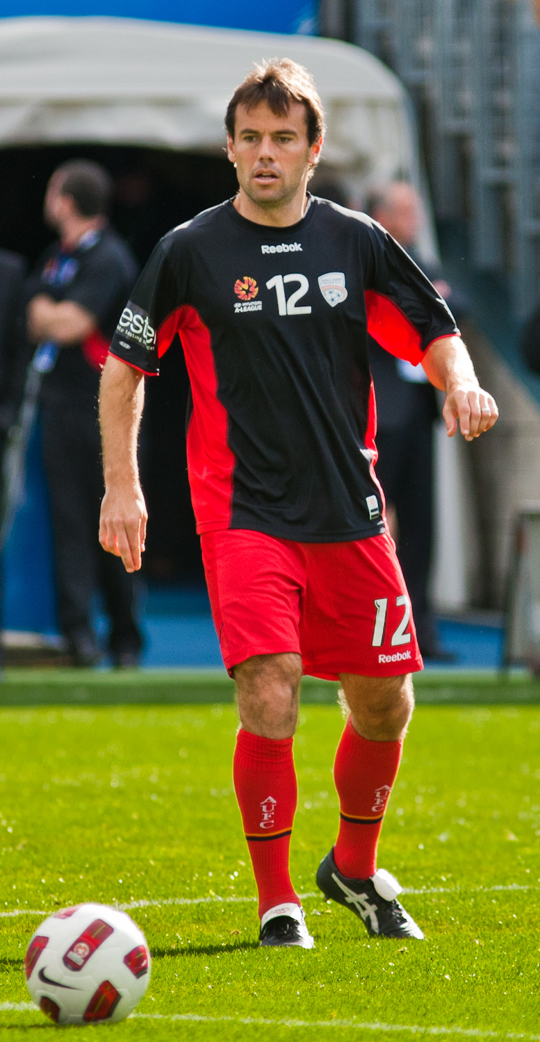 Paul Reid warming up with Adelaide United before an A-League Round 2 game against the Central Coast Mariners.